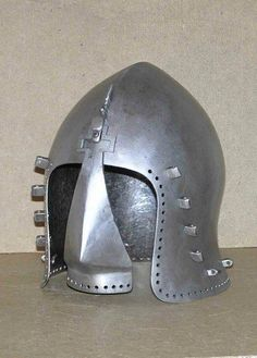 Bascinet with a bretache.